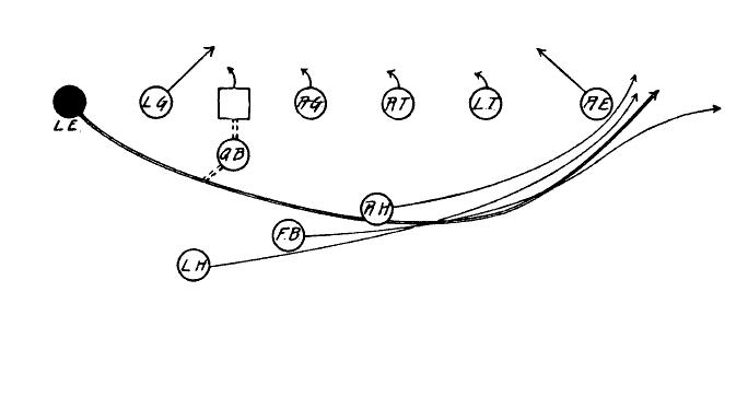 Tackle Over Formation - Left End Around.